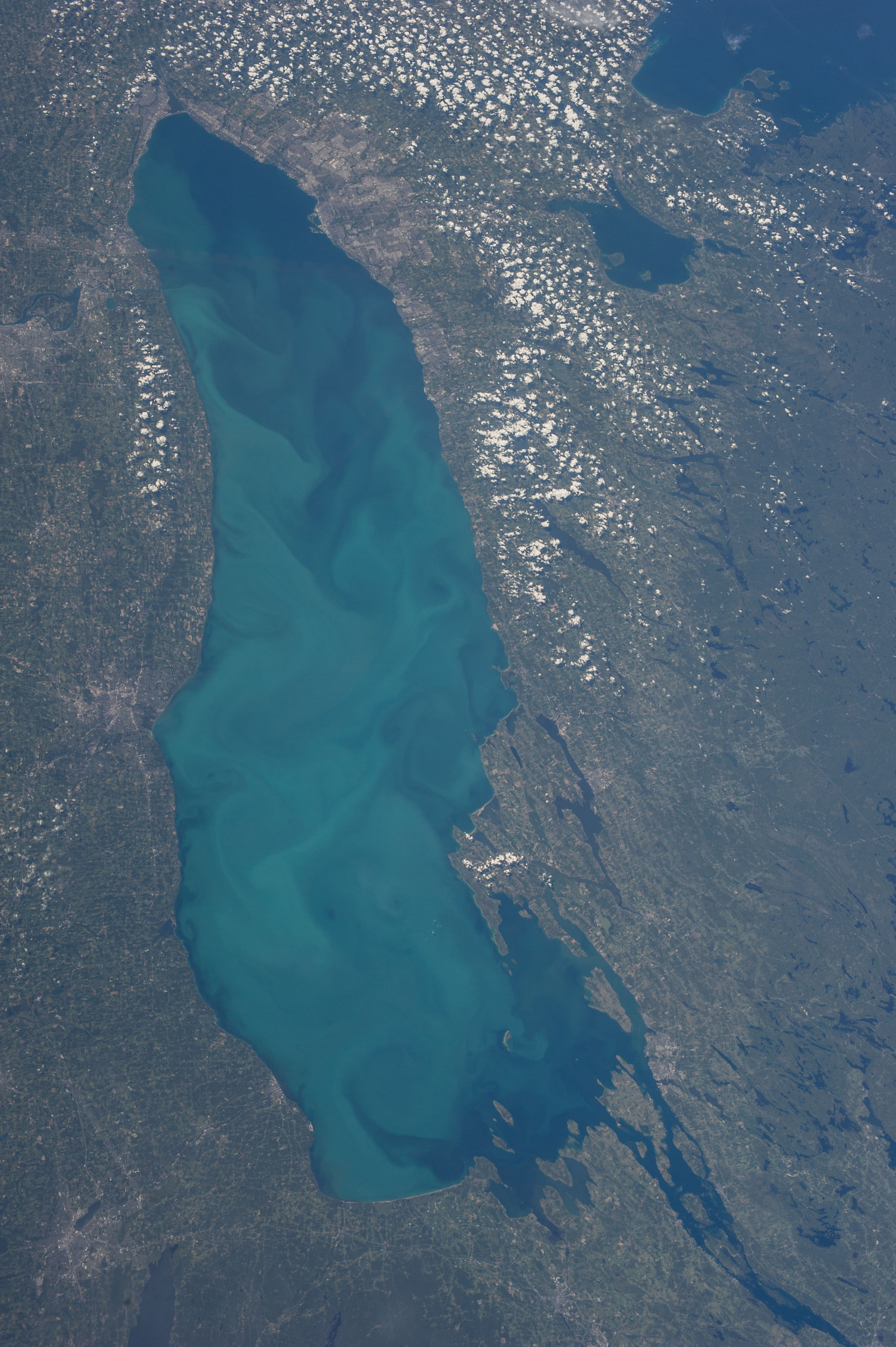 One of the Expedition 36 crew members aboard the International Space Station recorded this vertical image of Lake Ontario on Aug. 24, 2013. Lake Simcoe in Southern Ontario, Canada, is easily recognizable by its odd shape in upper right, just below the southeastern tip of Georgian Bay.